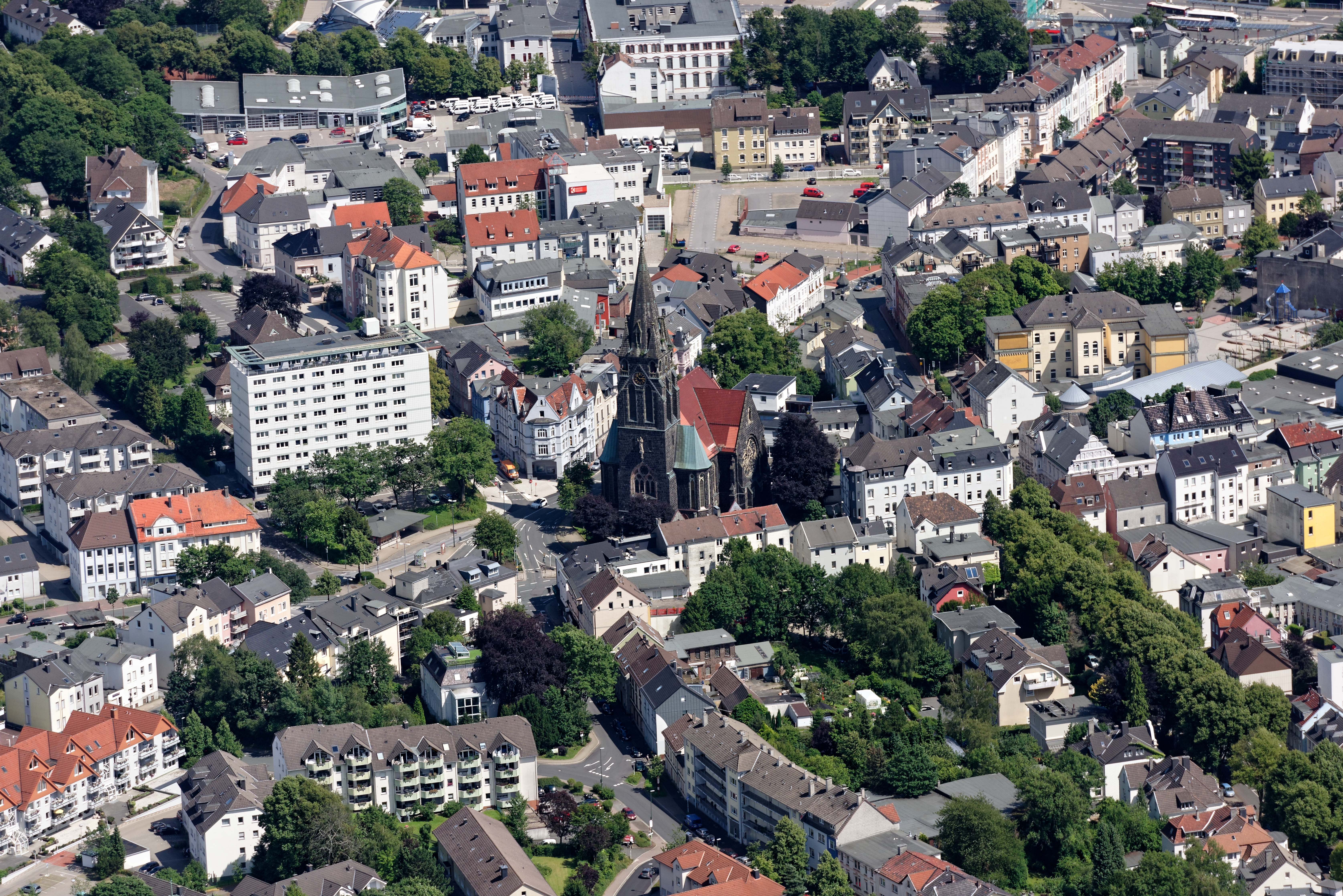 The making of this document was supported by the Community-Budget of Wikimedia Germany. Lüdenscheid, Christuskirche, Blick Richtung Osten